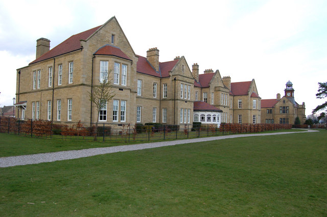 Former Scalebor Hospital Converted to apartments.